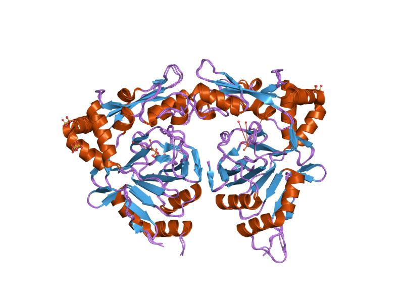 Cartoon representation of the molecular structure of protein registered with 2q4a code.